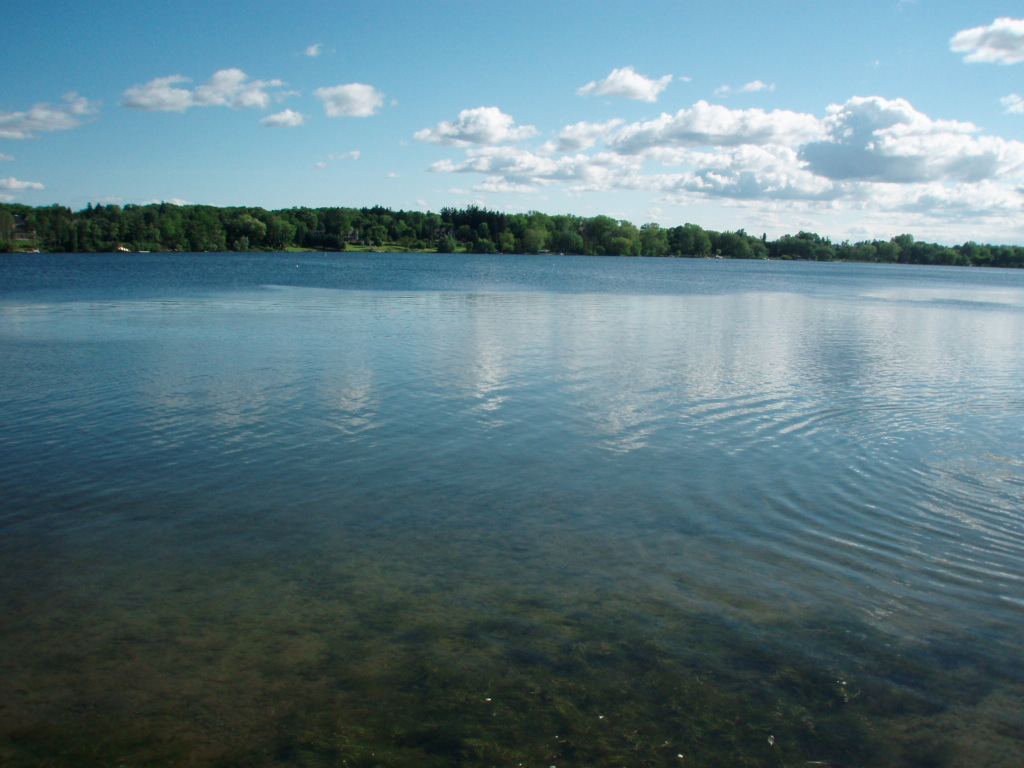 View of Lake Wilcox in Richmond Hill, Ontario, from Sunset Beach Park (now Lake Wilcox Park) in the afternoon.